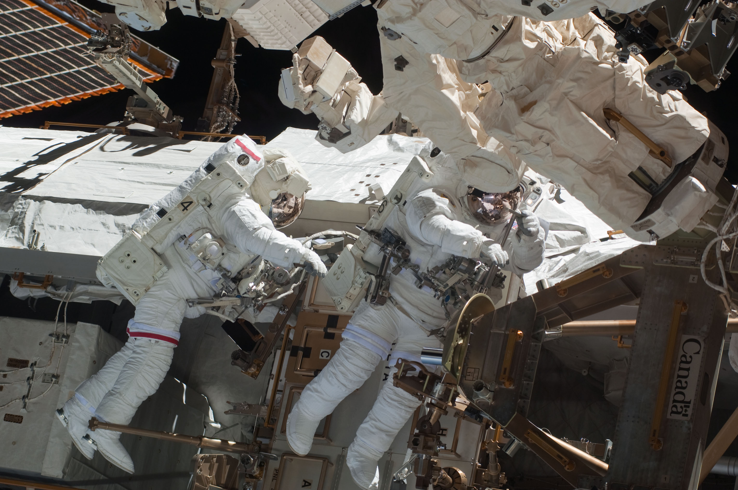 NASA astronauts Robert Behnken (bottom) and Nicholas Patrick, both STS-130 mission specialists, participate in the mission's first session of extravehicular activity (EVA) as construction and maintenance continue on the International Space Station. During the 6-hour, 32-minute spacewalk, Behnken and Patrick relocated a temporary platform from the Special Purpose Dexterous Manipulator, or Dextre, to the station's truss structure and installed two handles on the robot. Once Tranquility was structurally mated to Unity, the spacewalkers connected heater and data cables that will integrate the new module with the rest of the station's systems. They also pre-positioned insulation blankets and ammonia hoses that will be used to connect Tranquility to the station's cooling radiators during the mission's second spacewalk.